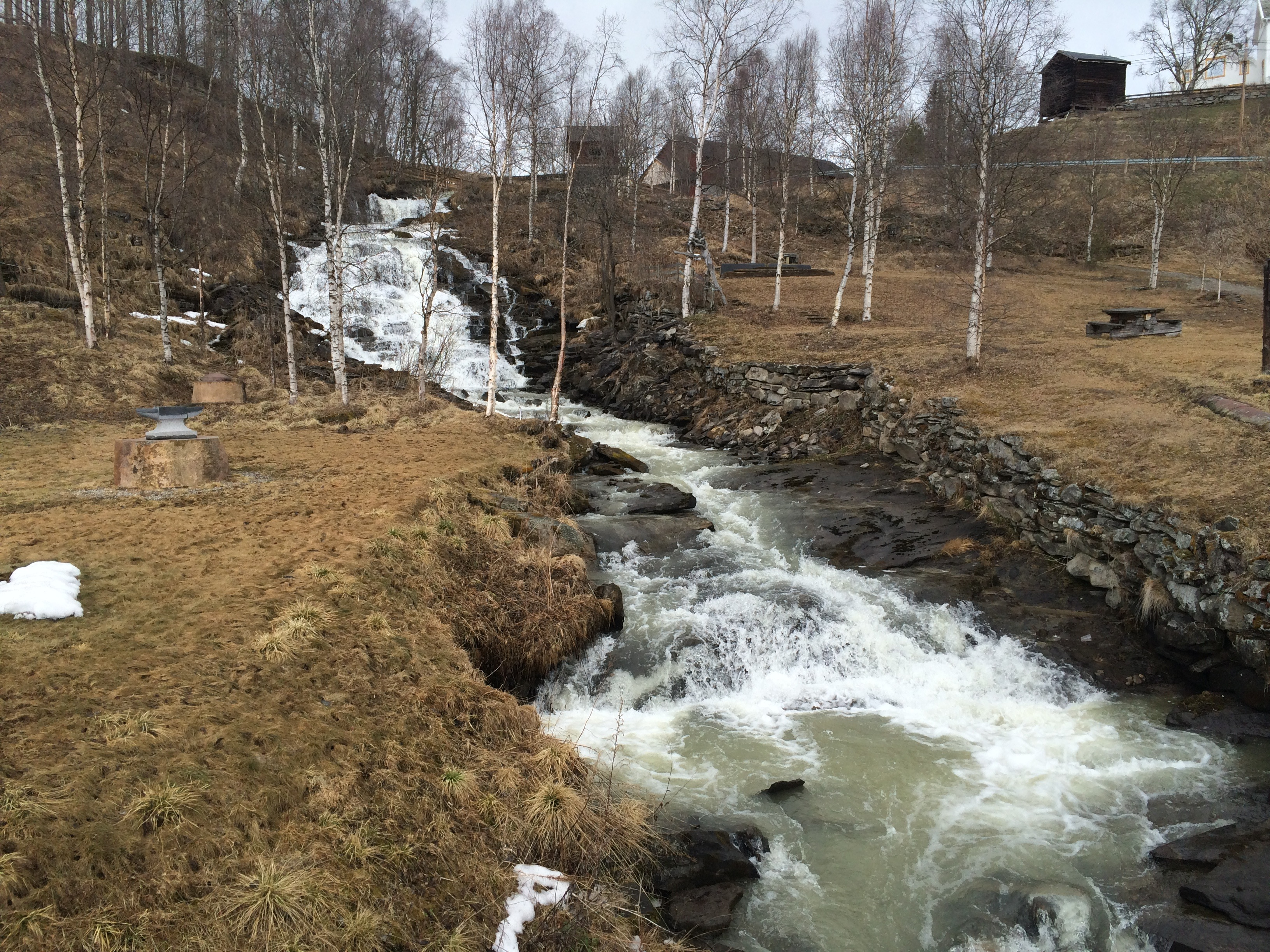 The falls in river Tållja, close to where it flows into river Glåma